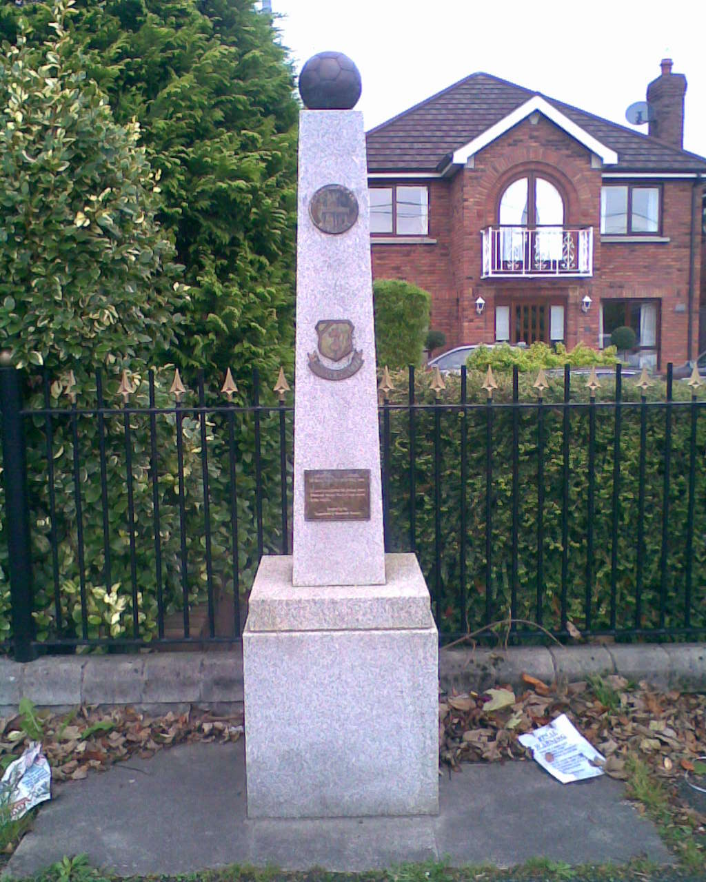 Small statue remembering the Shamrock FC football-field which was located at what is now the Glenmalure Sqyare housing-development in Milltown